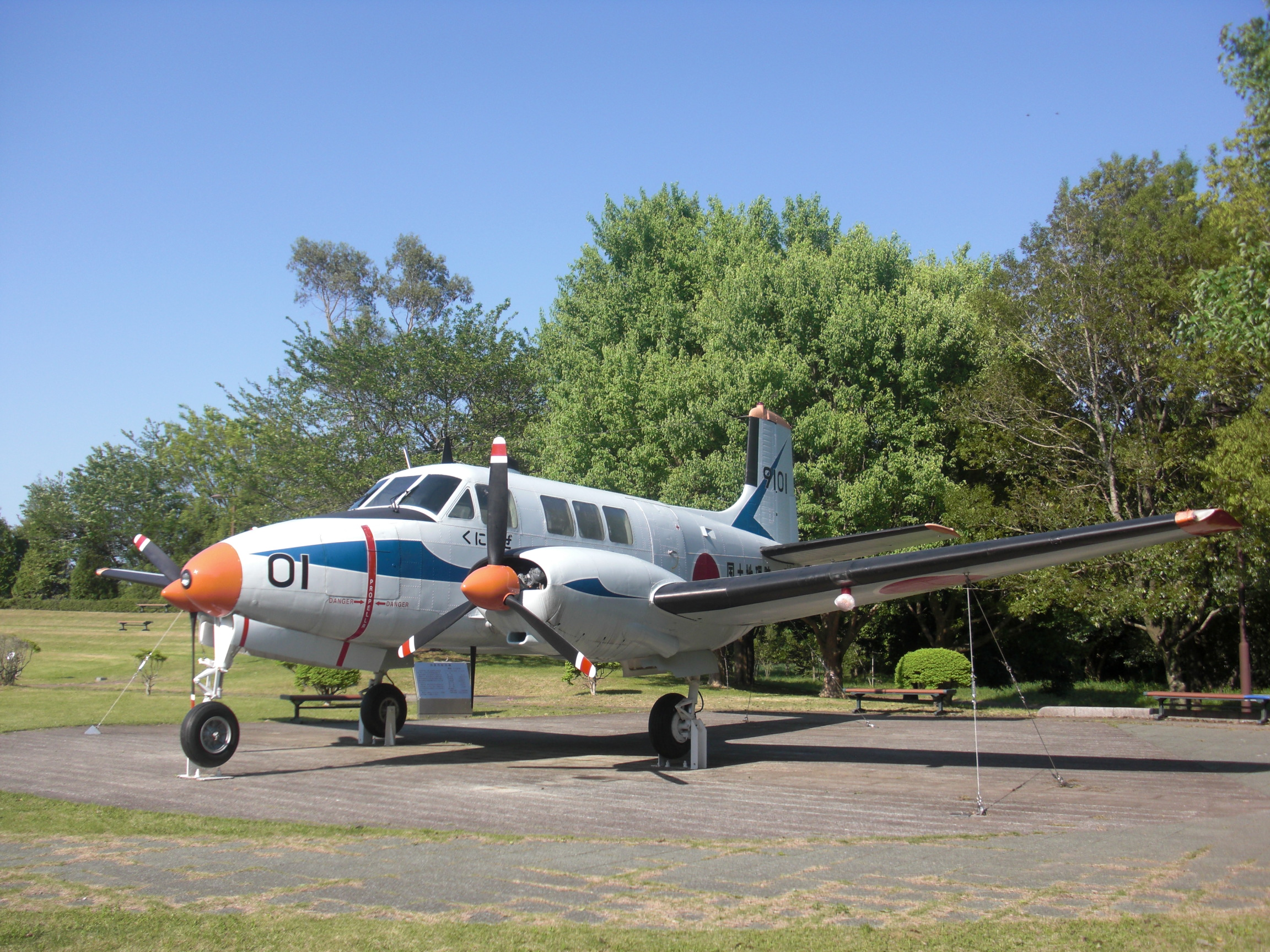 This is a plane for surveying. This plane was used by GSI or Geospatial Information Authority of Japan.